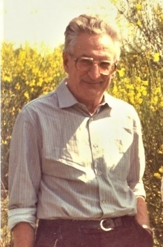 The mycologist Meinhard Michael Moser, circa 1980s